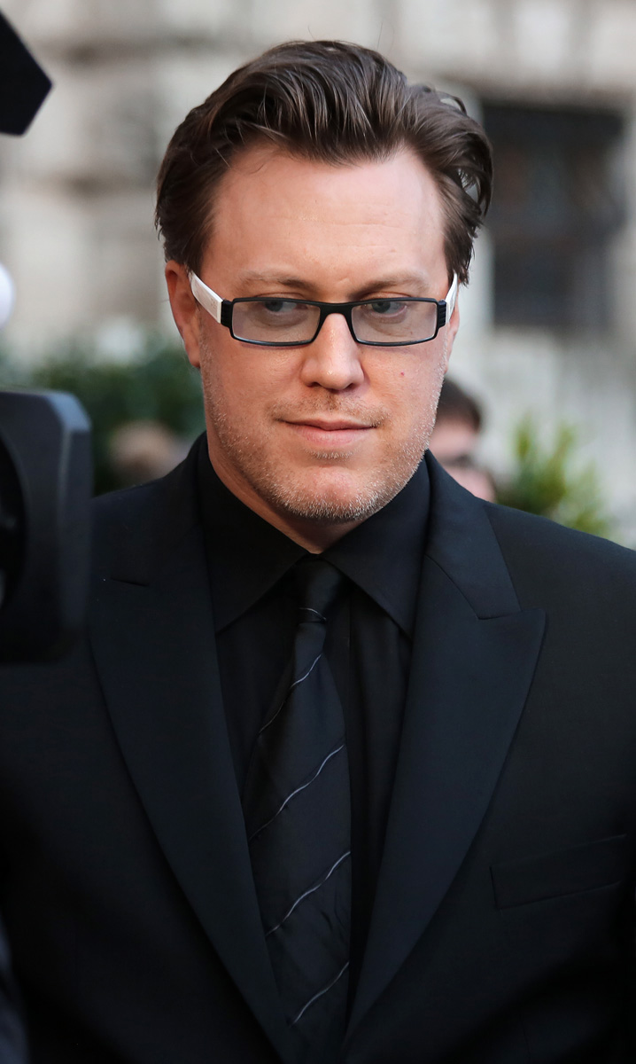 Nicholas Ofczarek at the Romy film awards (Hofburg Imperial Palace in Vienna)